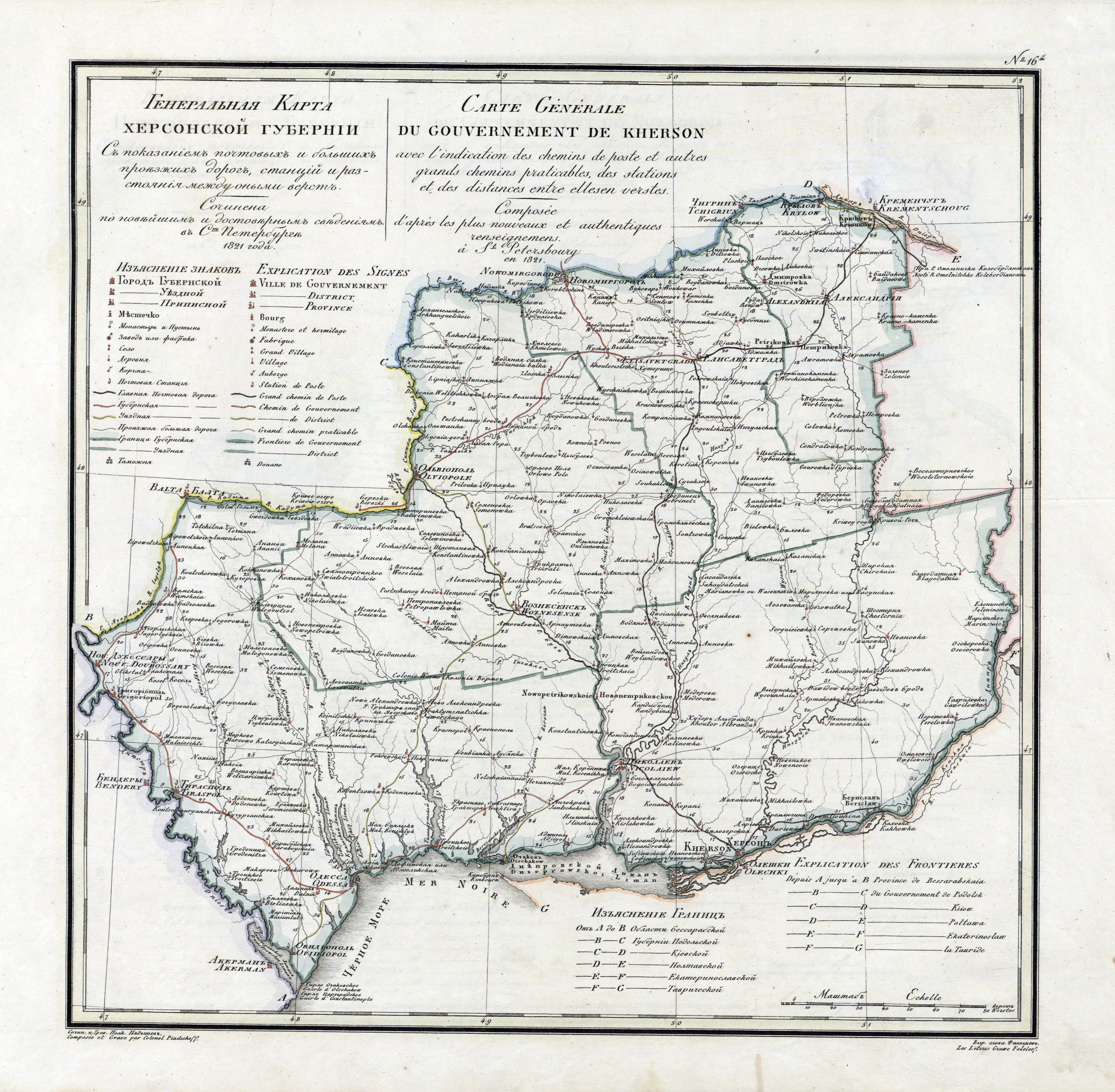 Kherson governorate